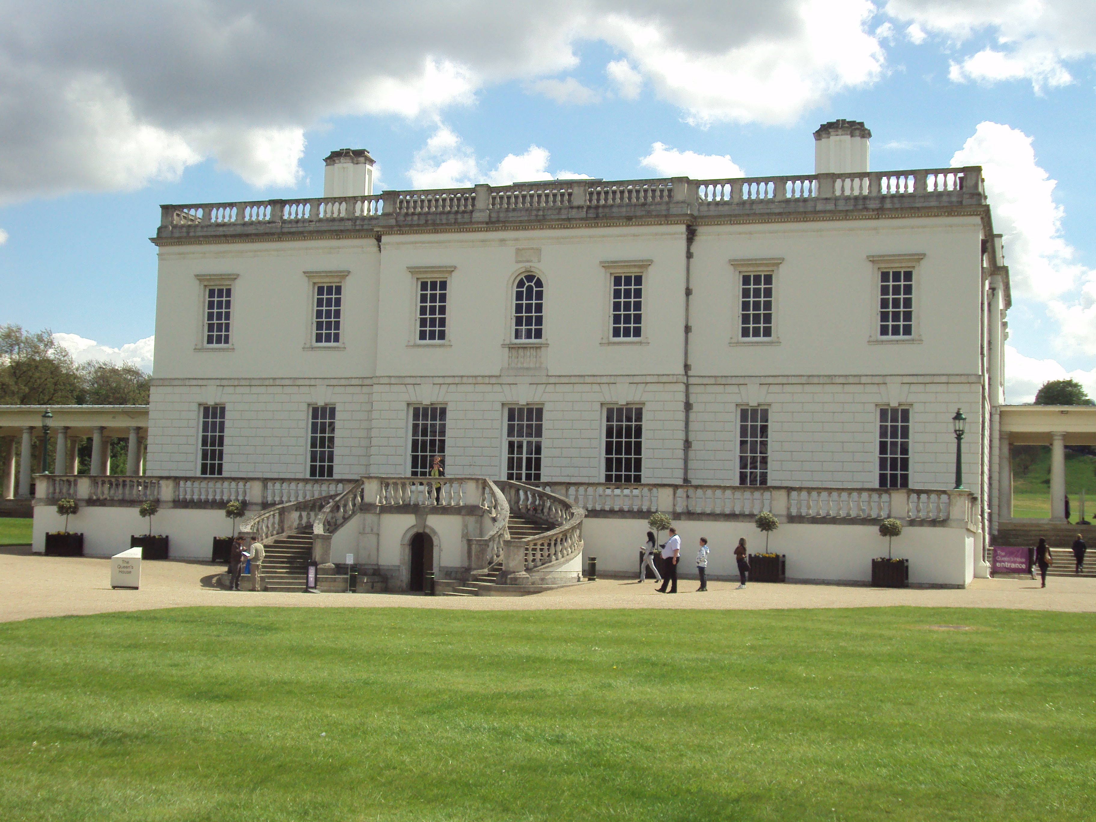 The Queen's House at Greenwich, London.